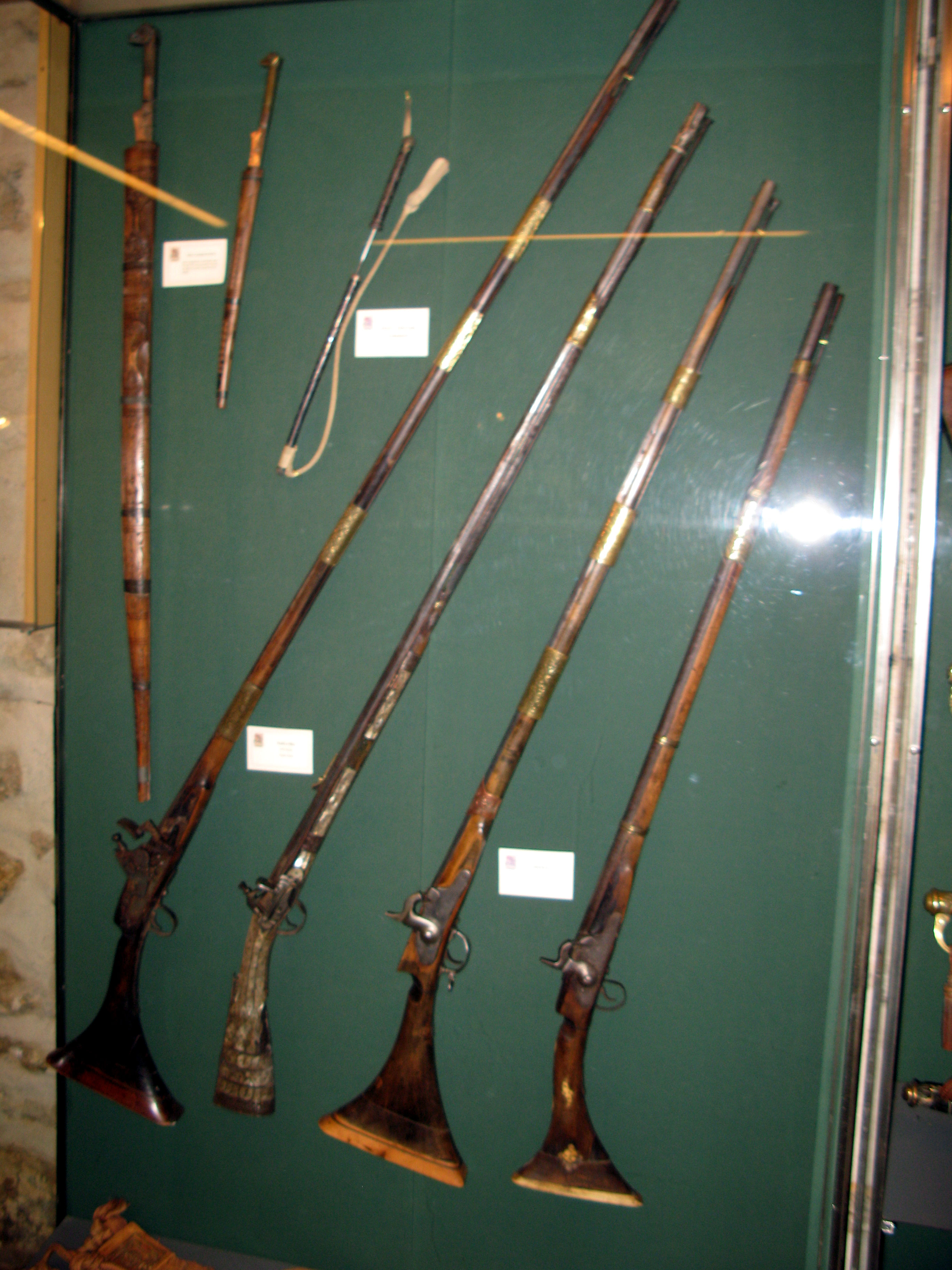 Algerian traditional weaponsMusée des Spahis, Senlis